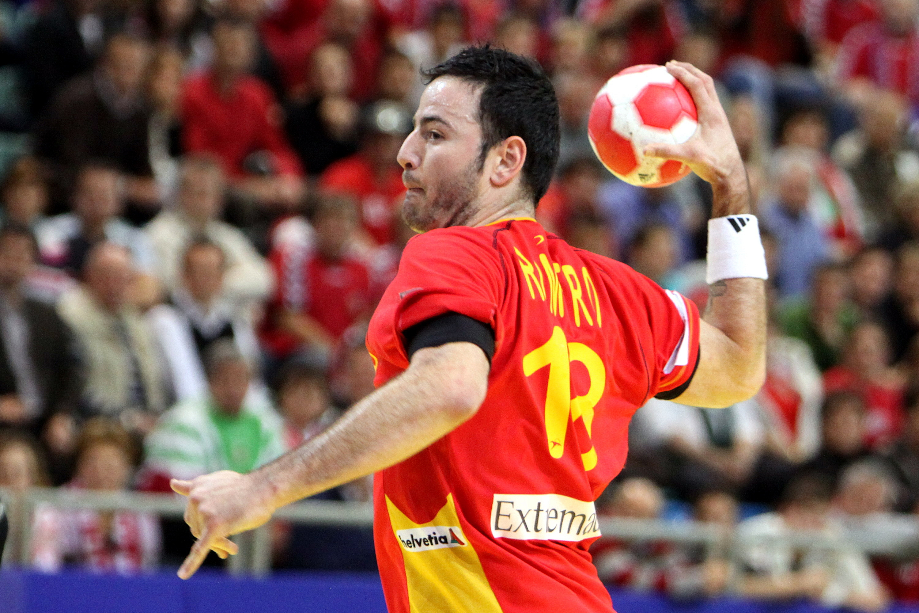 Iker Romero (FC Barcelona), Spain national handball team